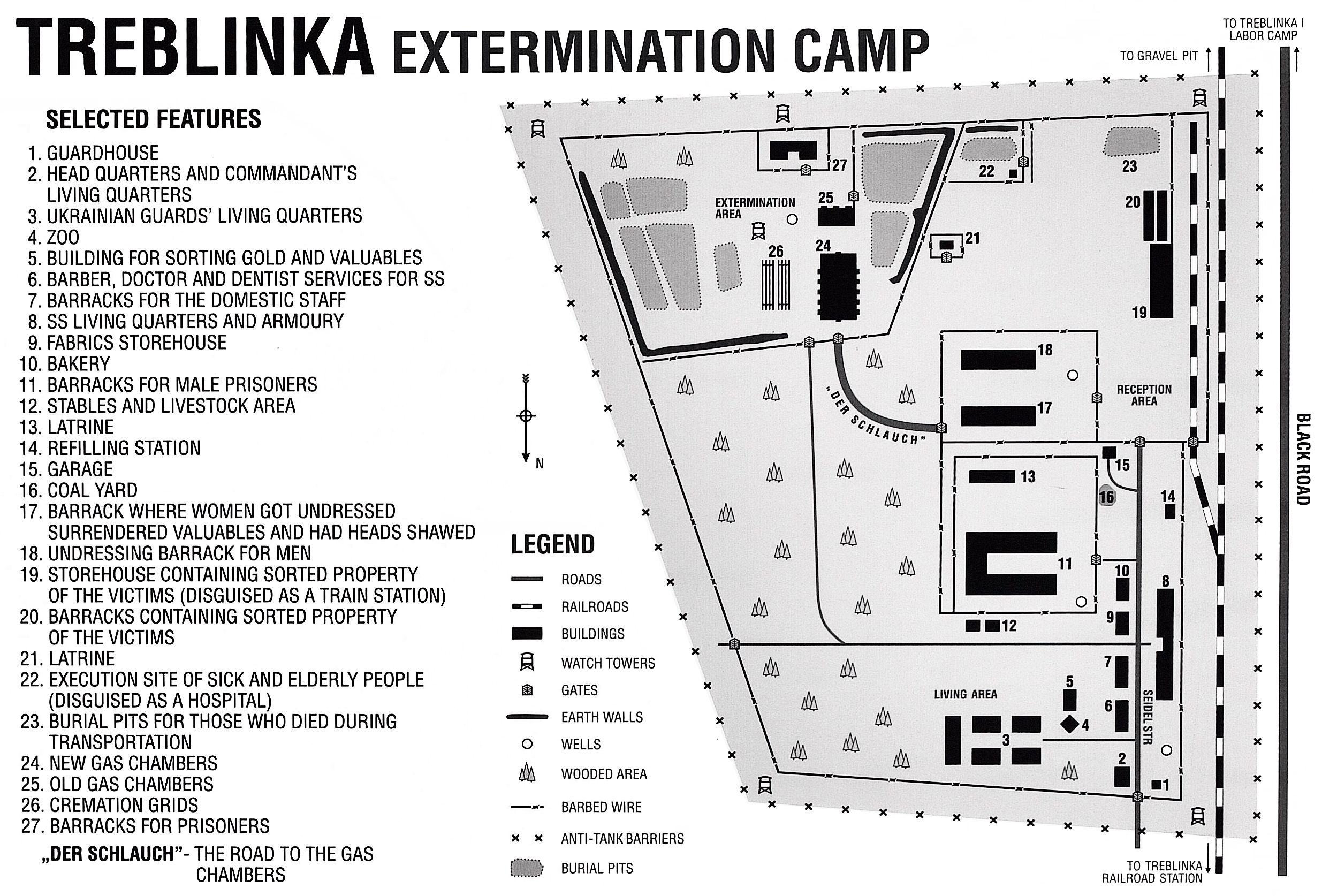 Map of the Treblinka extermination camp